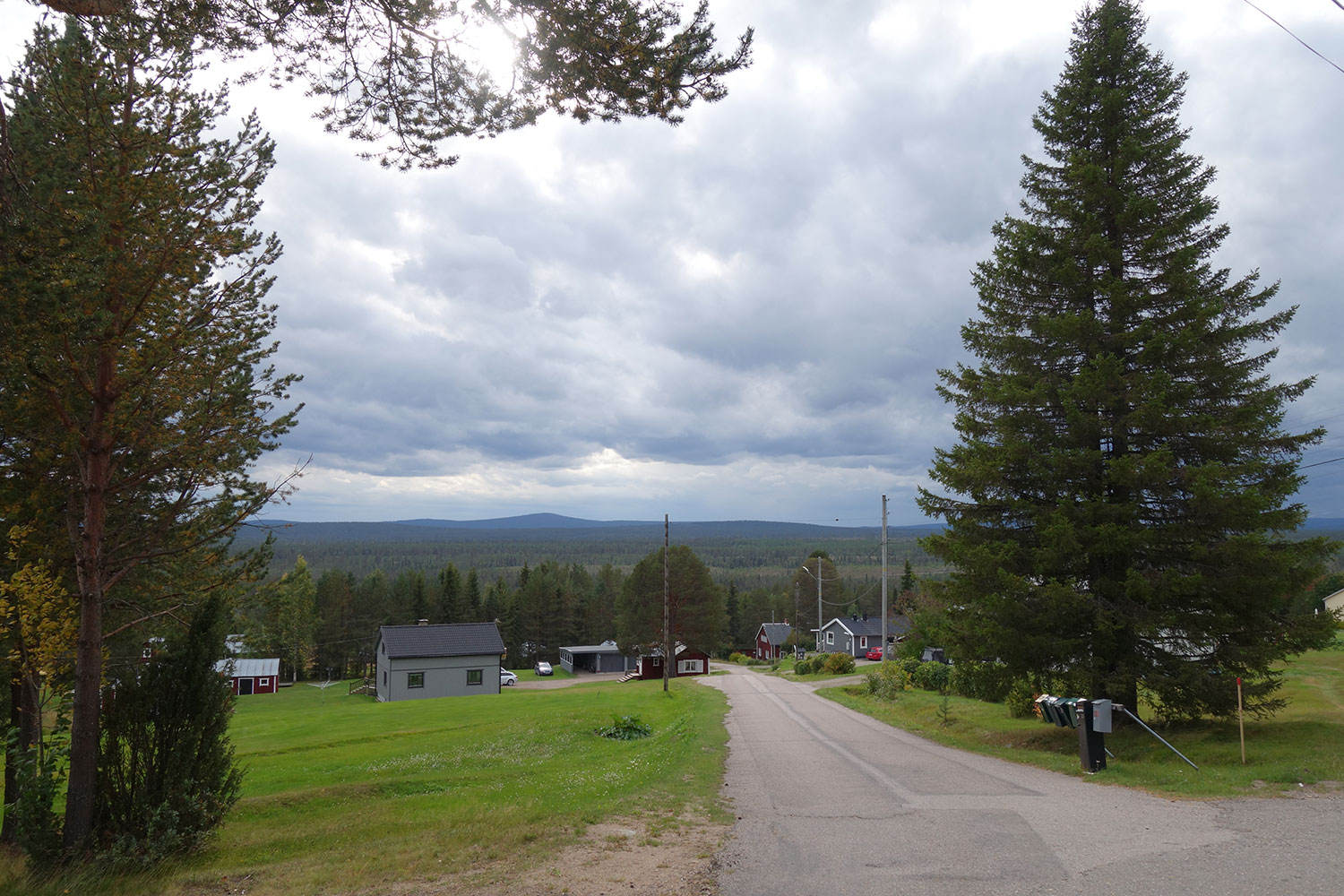 The village Nilivaara in Norrbotten County, Sweden, is situated on a hillside above the river Vettasjoki.